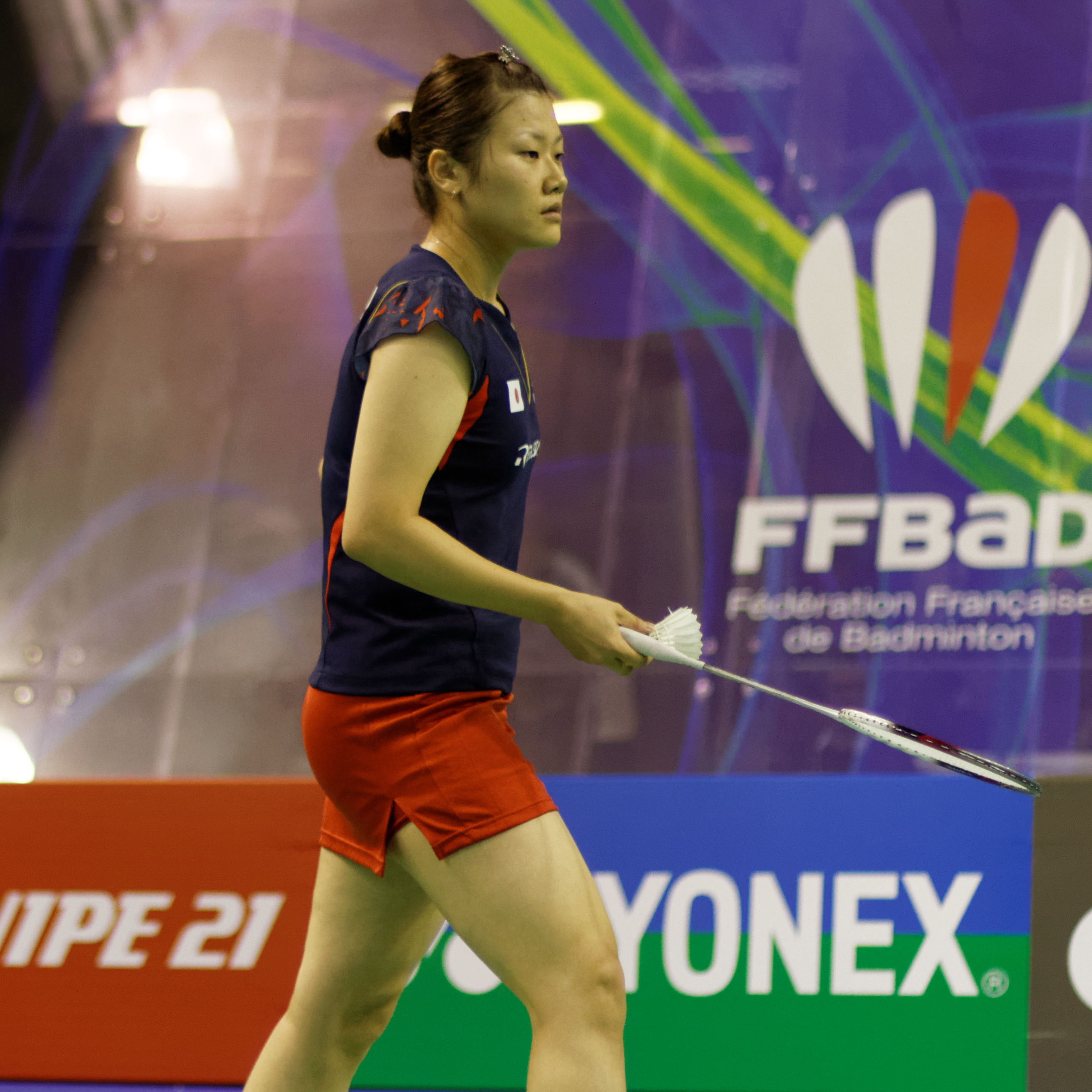 2013 French open. Women's doubles quarterfinal. Reika Kakiiwa and Miyuki Maeda vs Bao Yixin and Tang Jinhua.